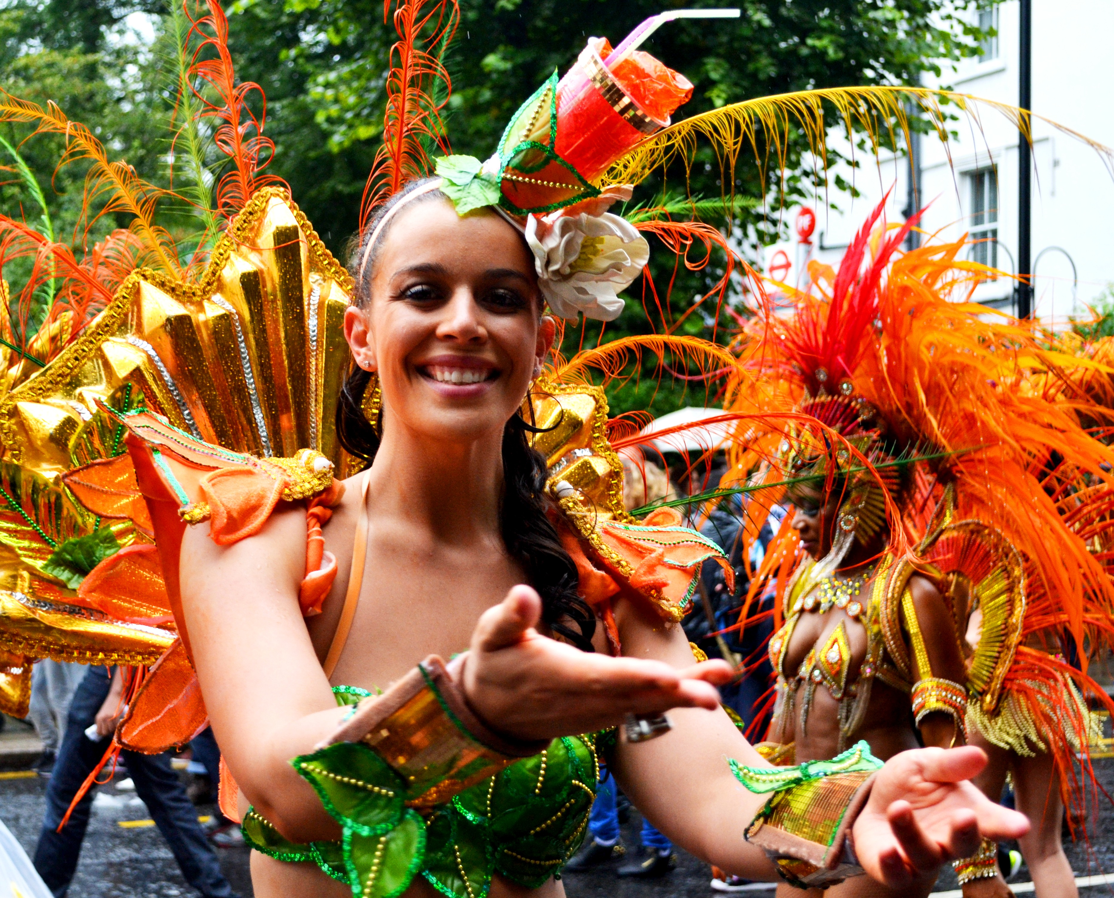 Notting Hill Carnival 2014, London, U.K.